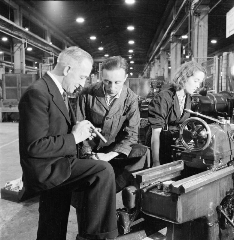 A Day in the Life of a Shop Steward- Factory work in Britain, 1942 Shop Steward Richard Sainsbury (centre) confers with Henry Howard, the foreman of the tool room, over the problem that worker Megan Beynon has presented them with. Megan has gone back to work on her turning machine whilst they try to solve the problem.